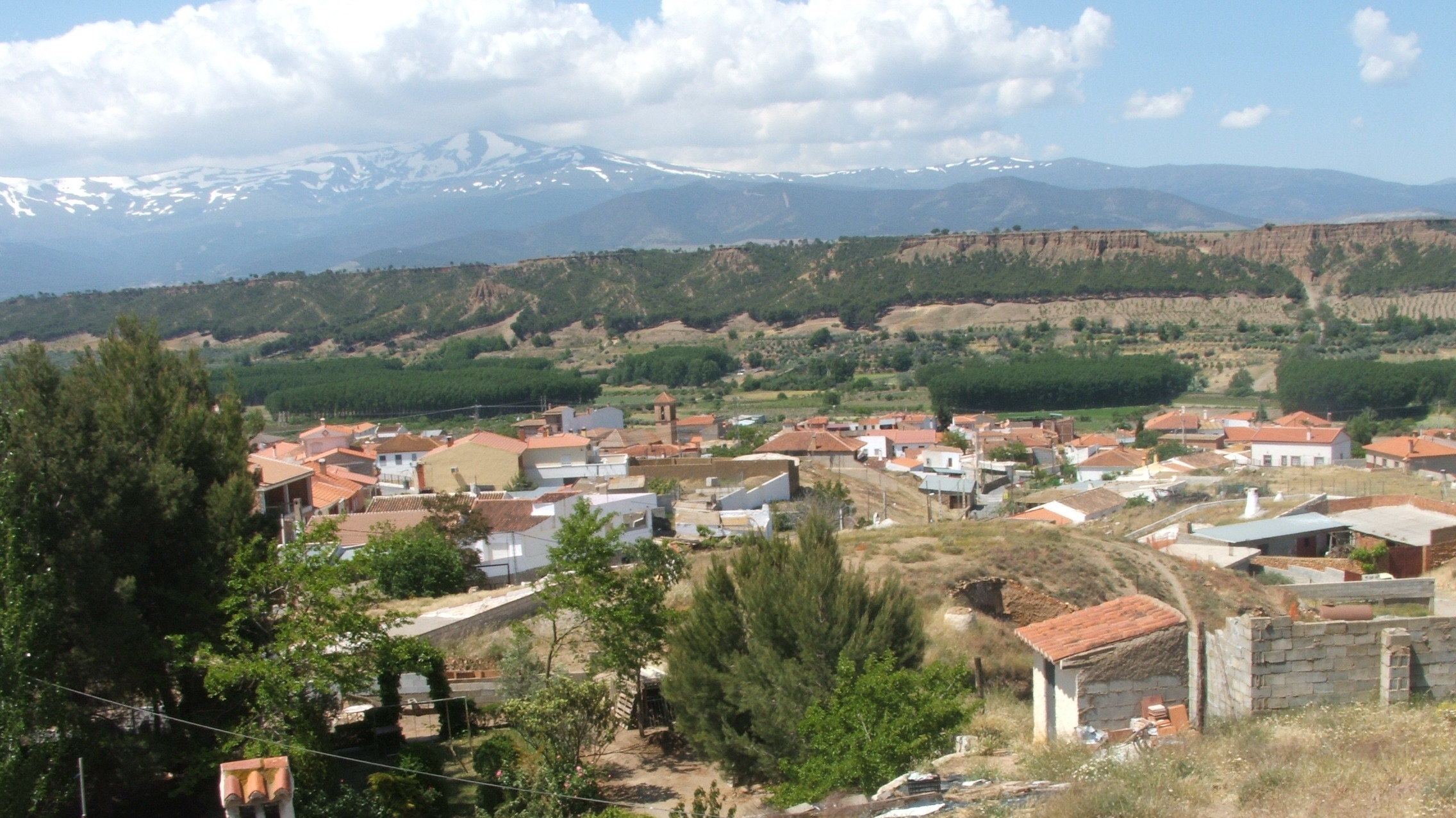 A photo of Exfiliana, Valle del Zalabí (Granada, Spain)